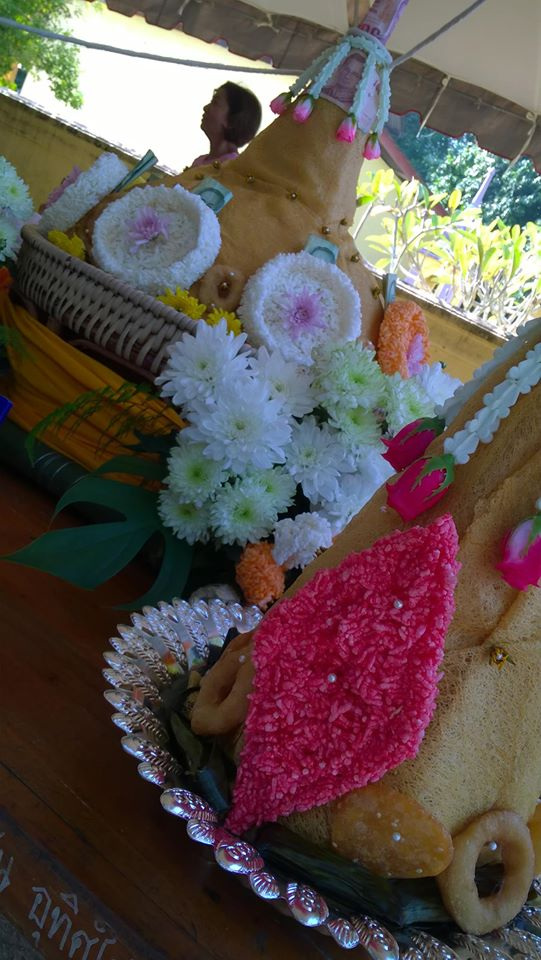 Traditional dessert offer to the ancestors